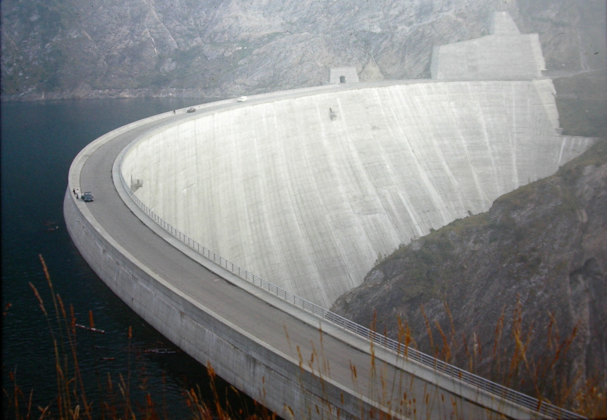 At Lago di Luzzone